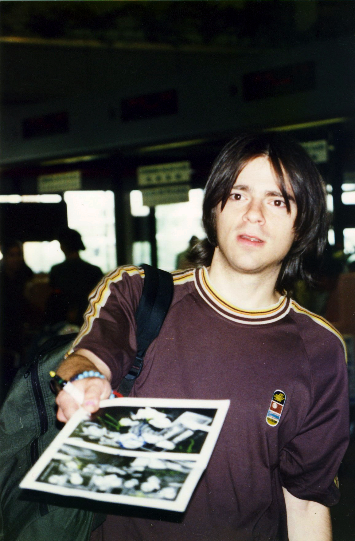 Rivers Cuomo at Don Mueang International Airport, Thailand.